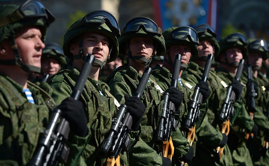 Parade of Victory in the Great Patriotic War.